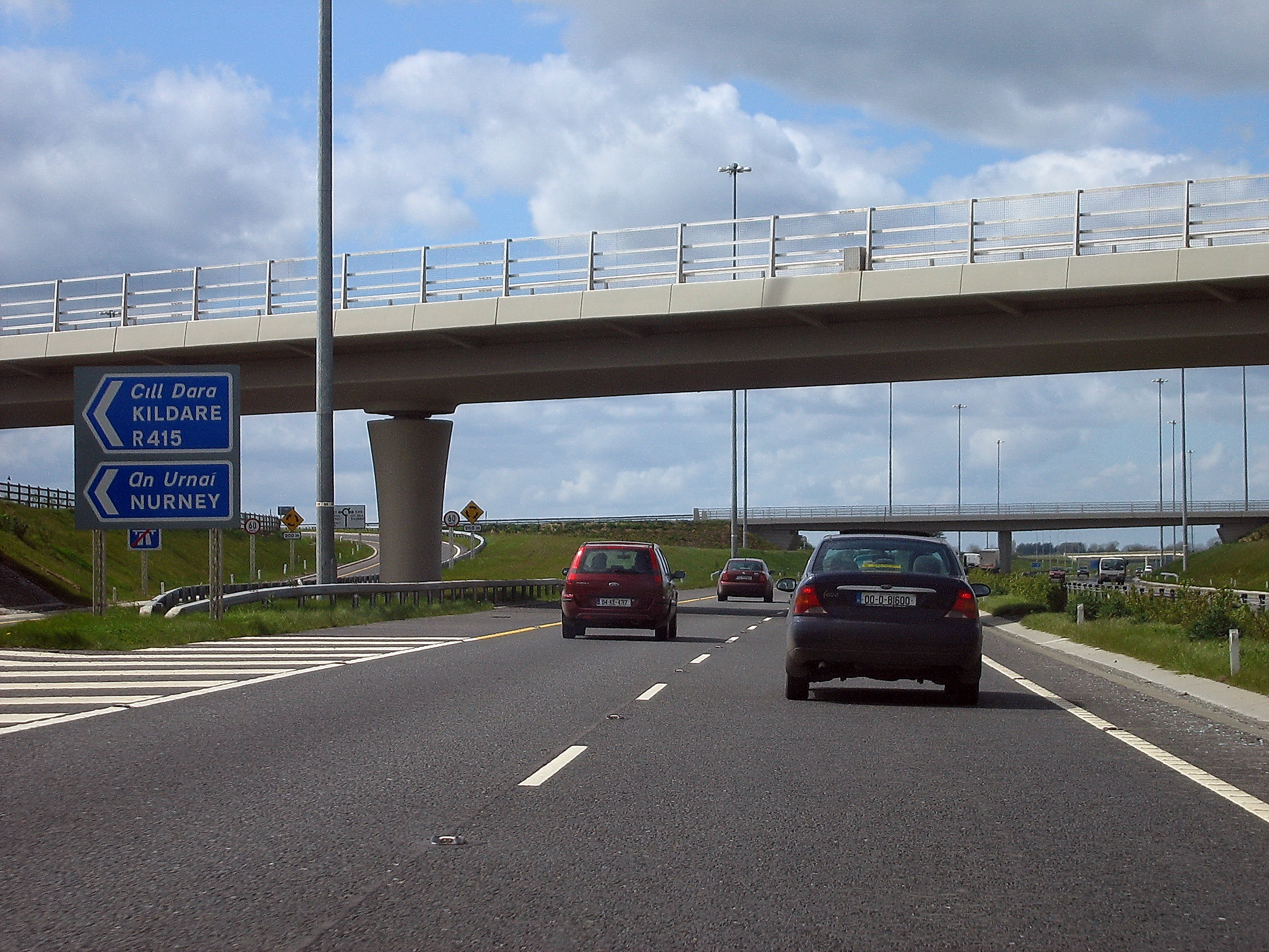 Exit for Kildare (R415) off M7 motorway, Ireland.